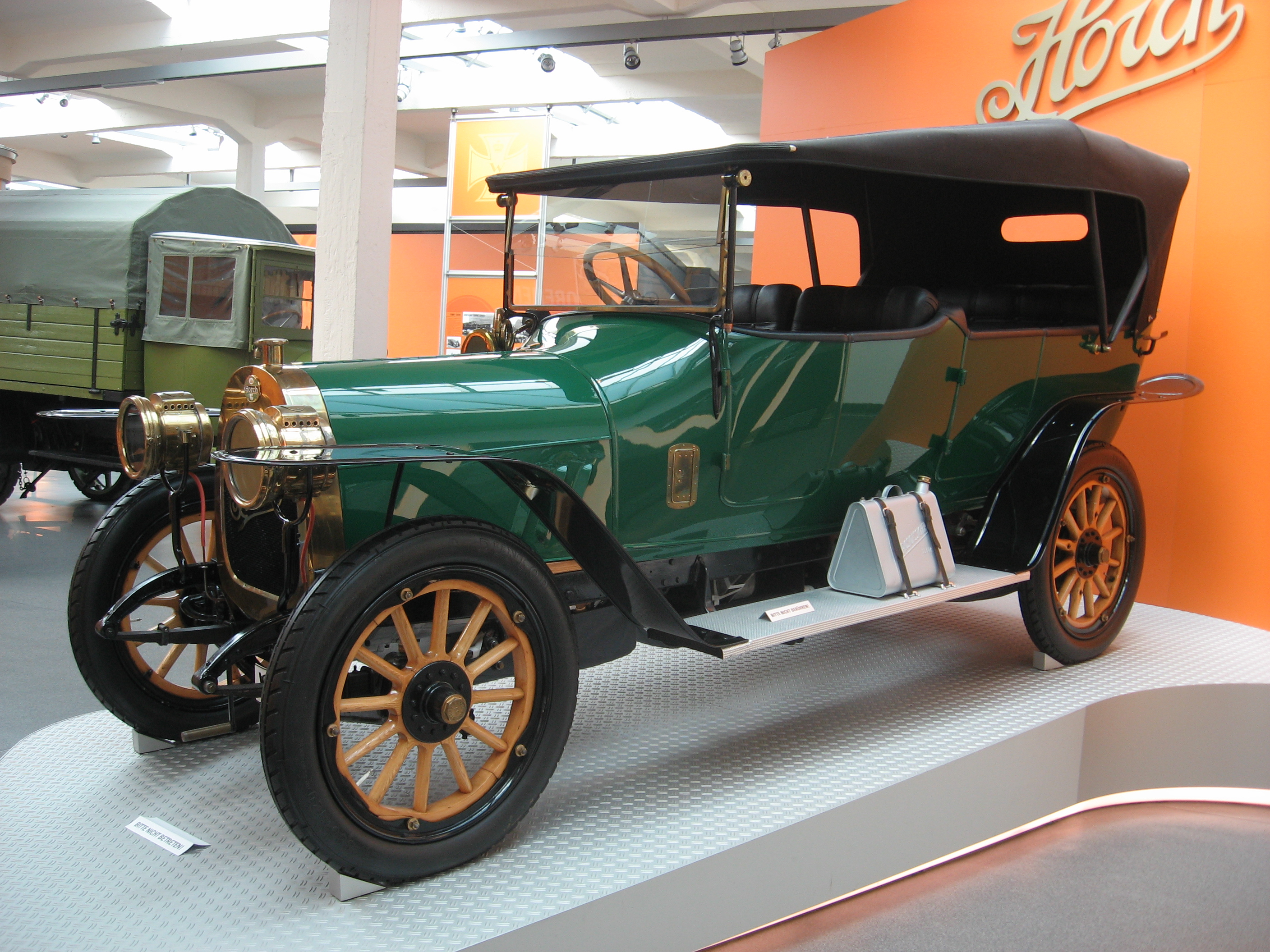 Subject: Horch 12/28 PS Author: Luc106 Date:June 12th, 2011 Place: Horch Museum Place/Country: Zwickau (Germany) I release all rights in the public domain.